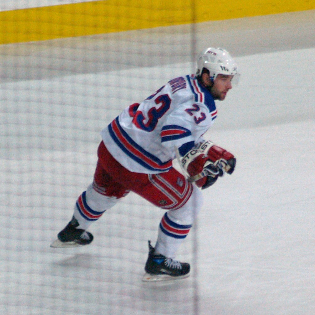 Chris Drury of the New York Rangers during a game against the Calgary Flames in Calgary